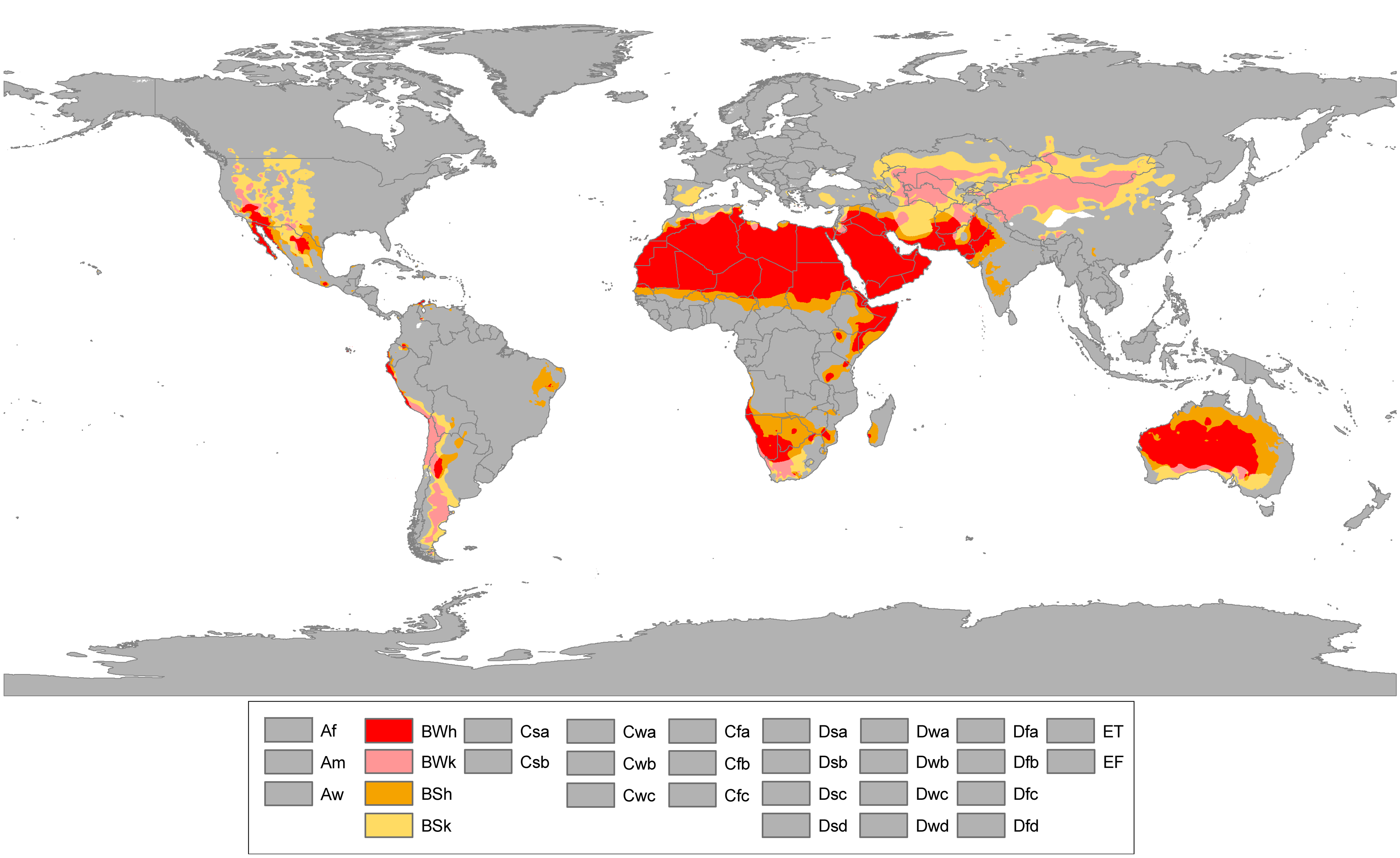 Updated world map of the Köppen-Geiger climate classification. GROUP B: Dry (arid and semiarid) climates (BWh, BWk, BSh, BSk) (old version)